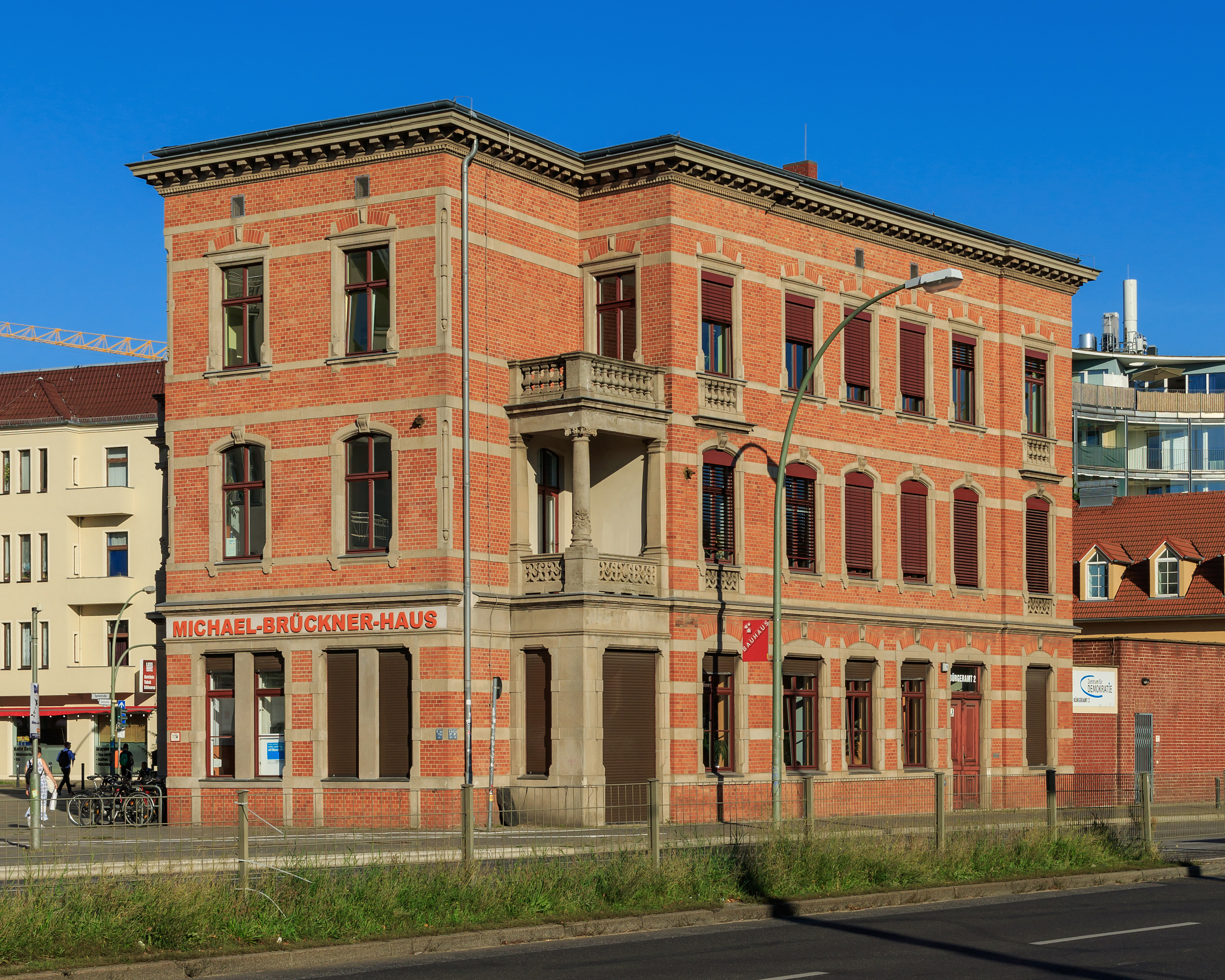 Listed building in Niederschöneweide in Berlin (Germany)